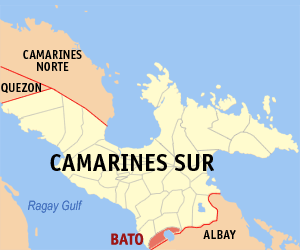 Map of Camarines Sur showing the location of Bato